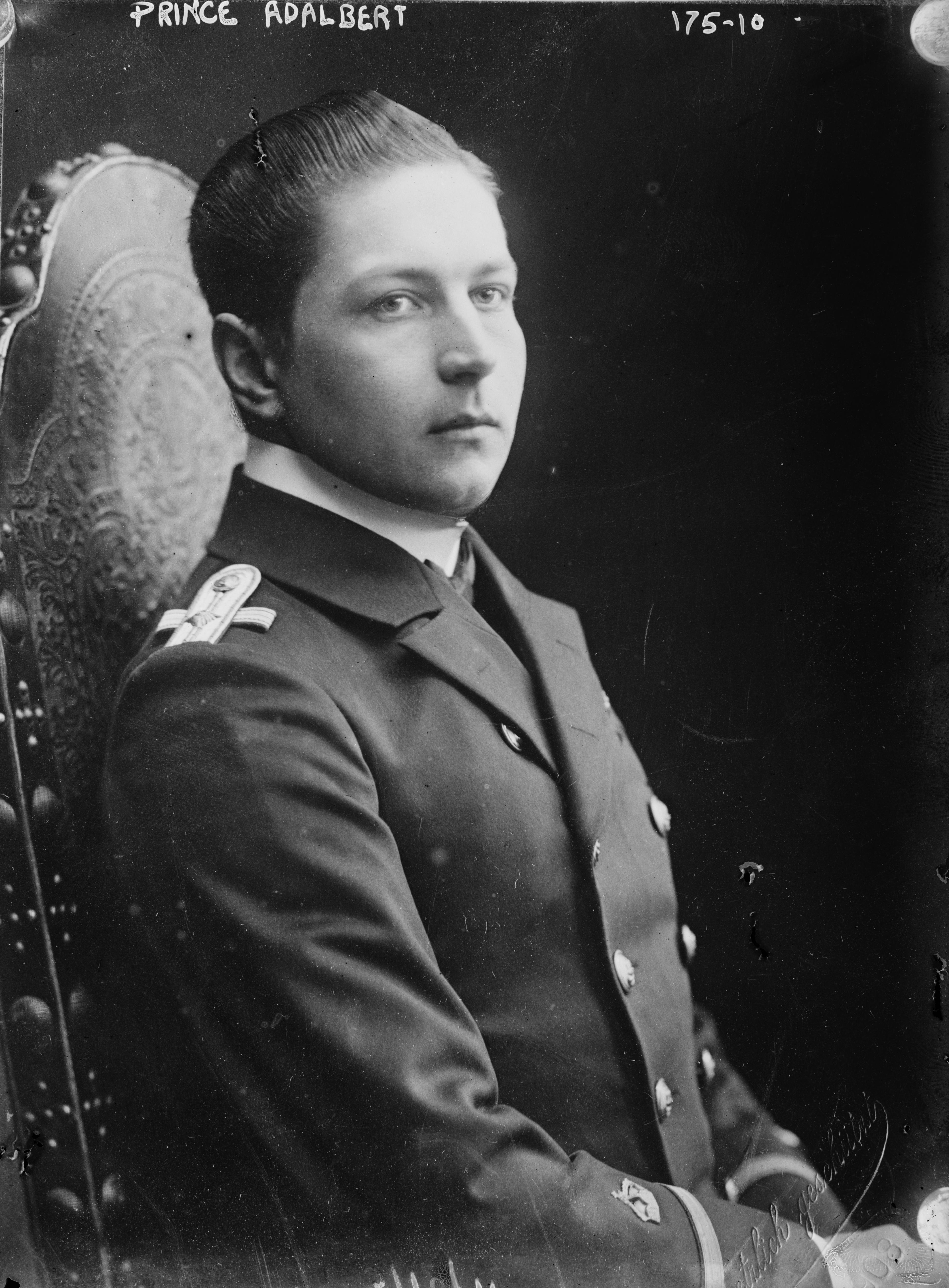 Prince Adalbert of Prussia (1884–1948), son of Emperor Wilhelm II.